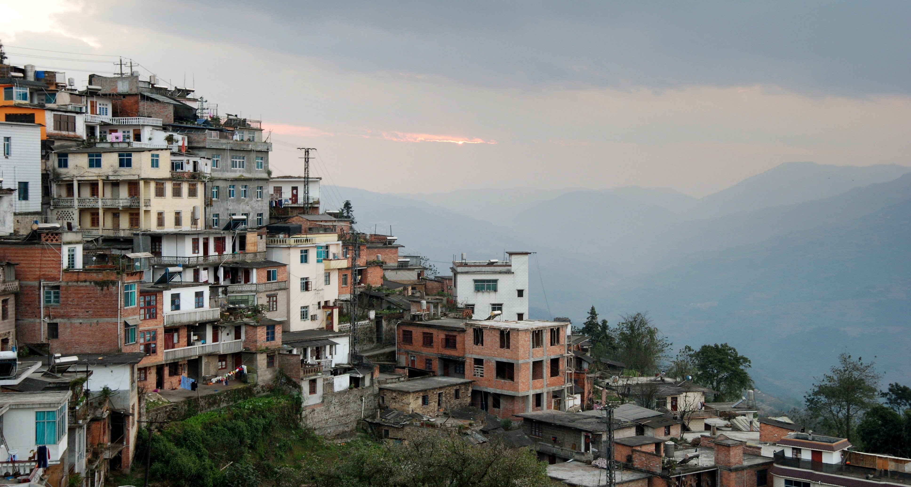 Part of the town of Yuanyang seen from the main square near sundown. Yunnan province, China